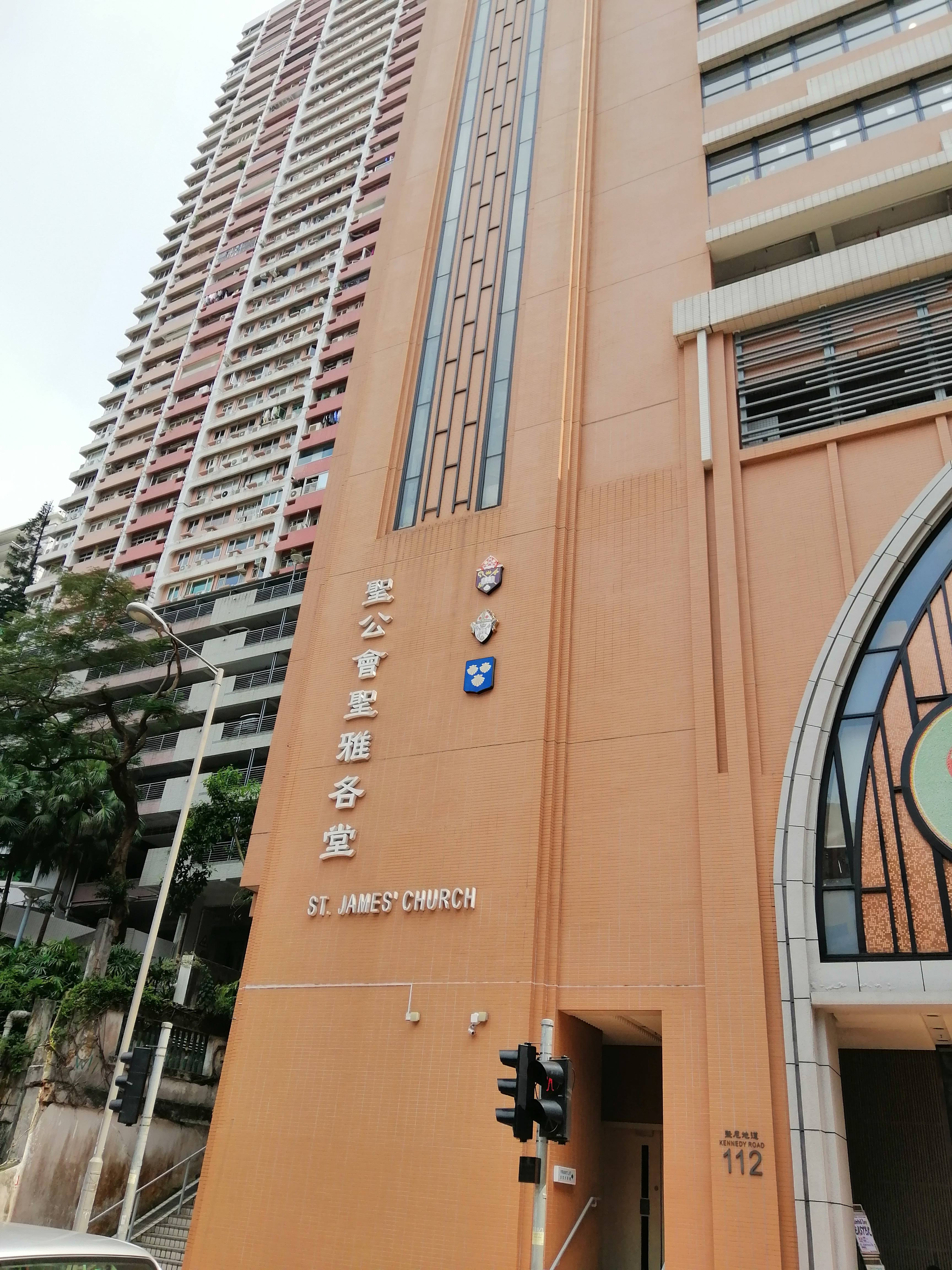 wan chai 3